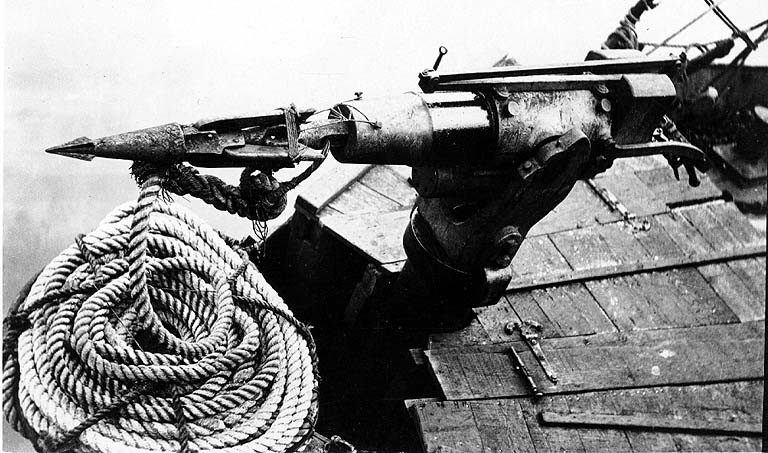 On verso of image: Alaska-whaling Subjects (LCTGM): Harpoons--Alaska Subjects (LCSH): Whaling ships--Alaska; Whaling--Alaska; Rope--Alaska